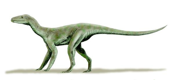 Silesaurus opolensis, a dinosauriform from the Late Triassic of Poland, pencil drawing